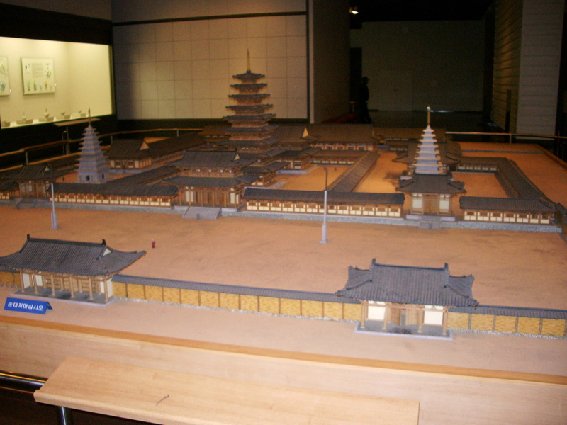 Another early Korean kingdom was Baekje, and it was known for its Buddhist art; Japanese Buddhist art owes much to Baekje. Here is another great Buddhist temple that no longer exists: Mireuksa (彌勒寺, Maitreya Temple), in Iksan, North Jeolla Province. By the 20th Century, only the western stone pagoda (left) was standing, partially collapsed. Partial restoration of Mireuksa is now underway.